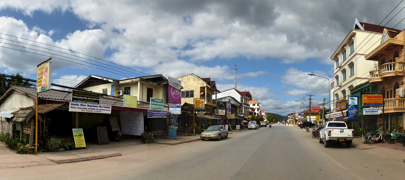 Luang Namtha, Laos.